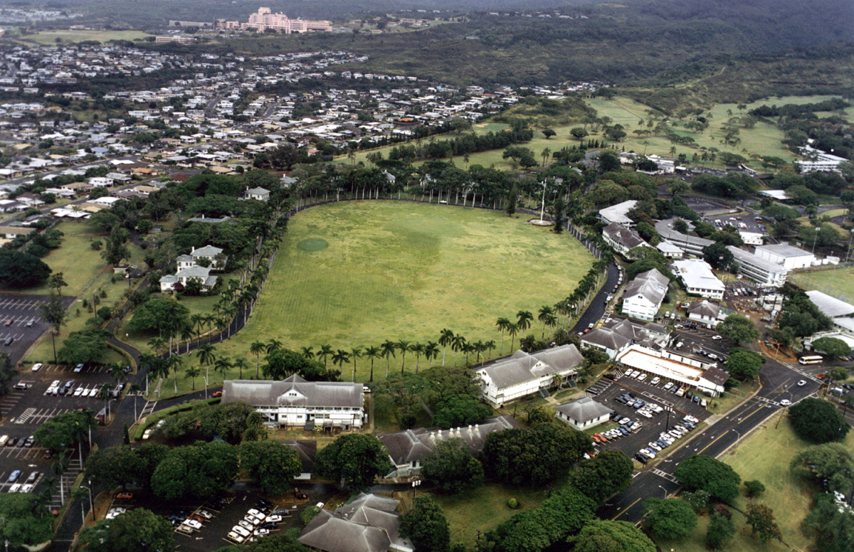 Aerial view of Palm Circle at Fort Shafter